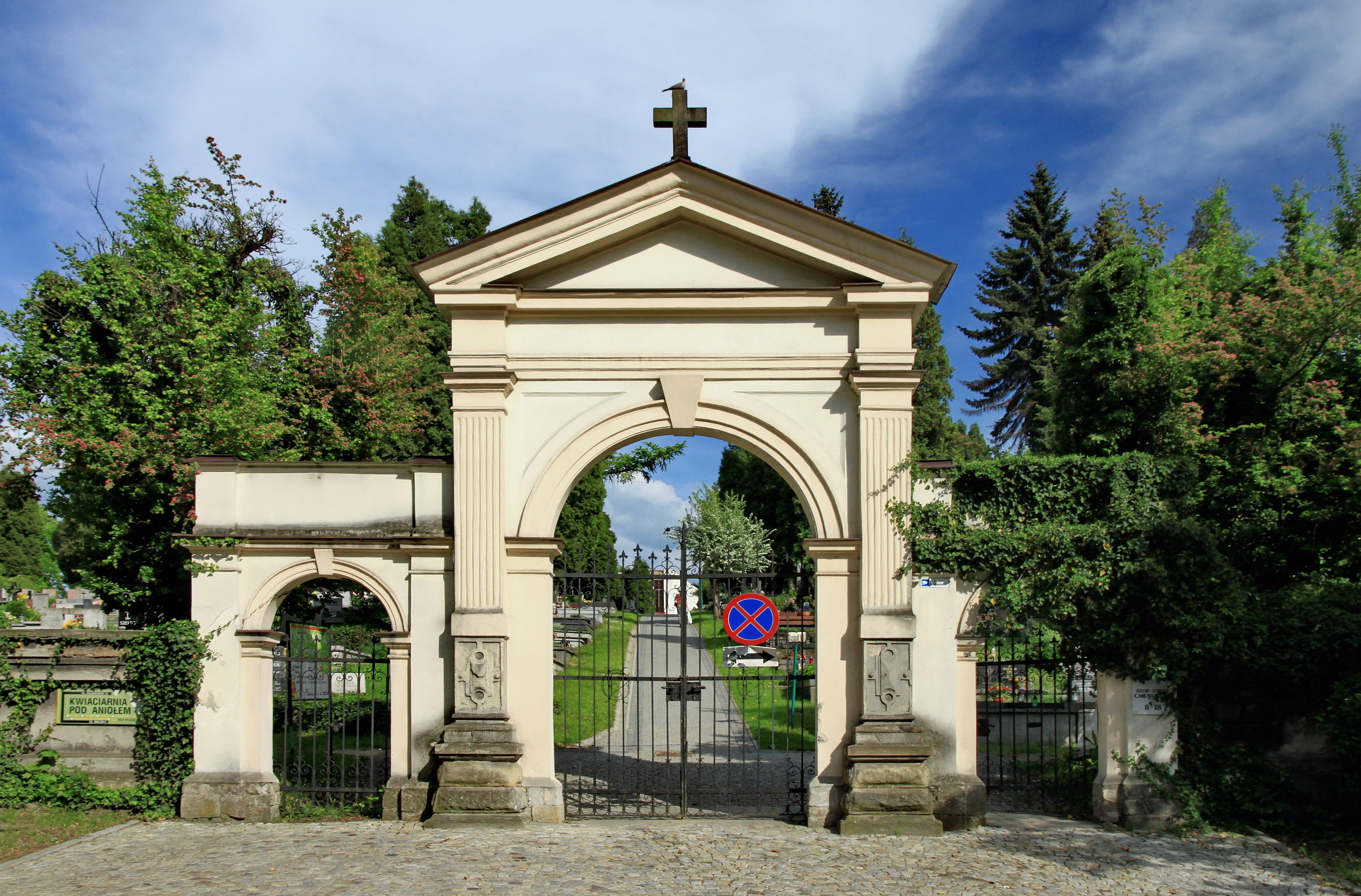 Cieszyn, lutheran cemetery, main gate, 19th century